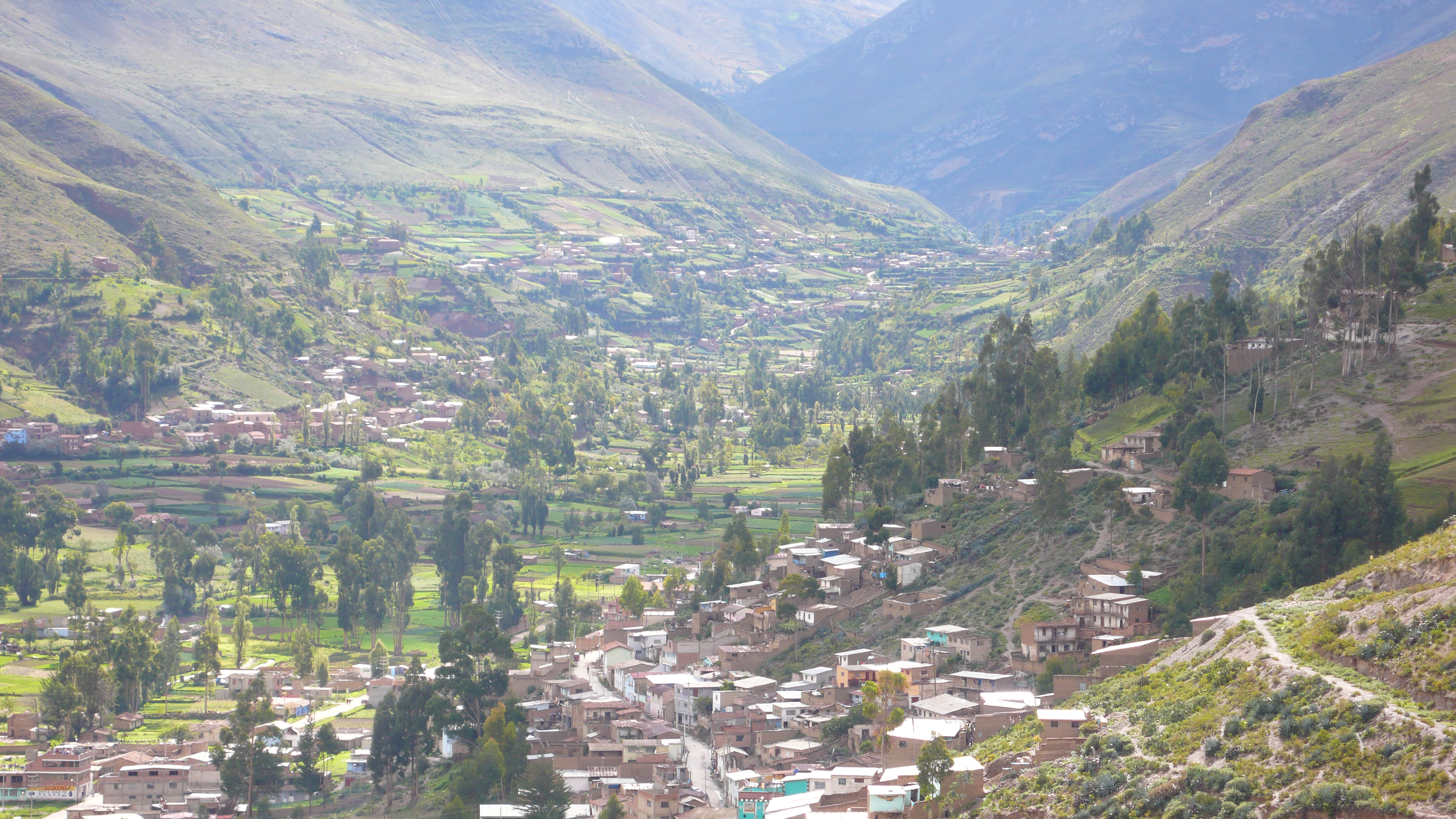 The Tarma Valley, Peru